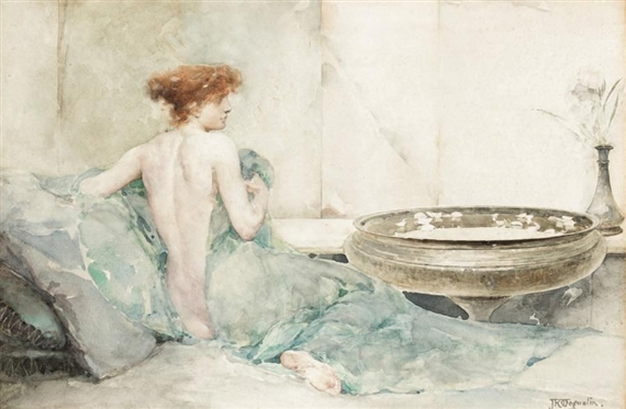 a nymph or woman turned into a rose by the goddess Diana (Artemis) so she could evade the unwanted attention of her suitors. In the painting she is draped in blue and reclining against a pile of cushions.